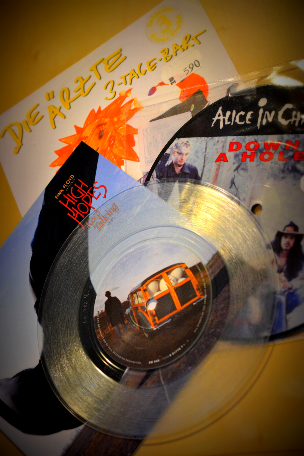 Pink Floyd & Alice in Chains